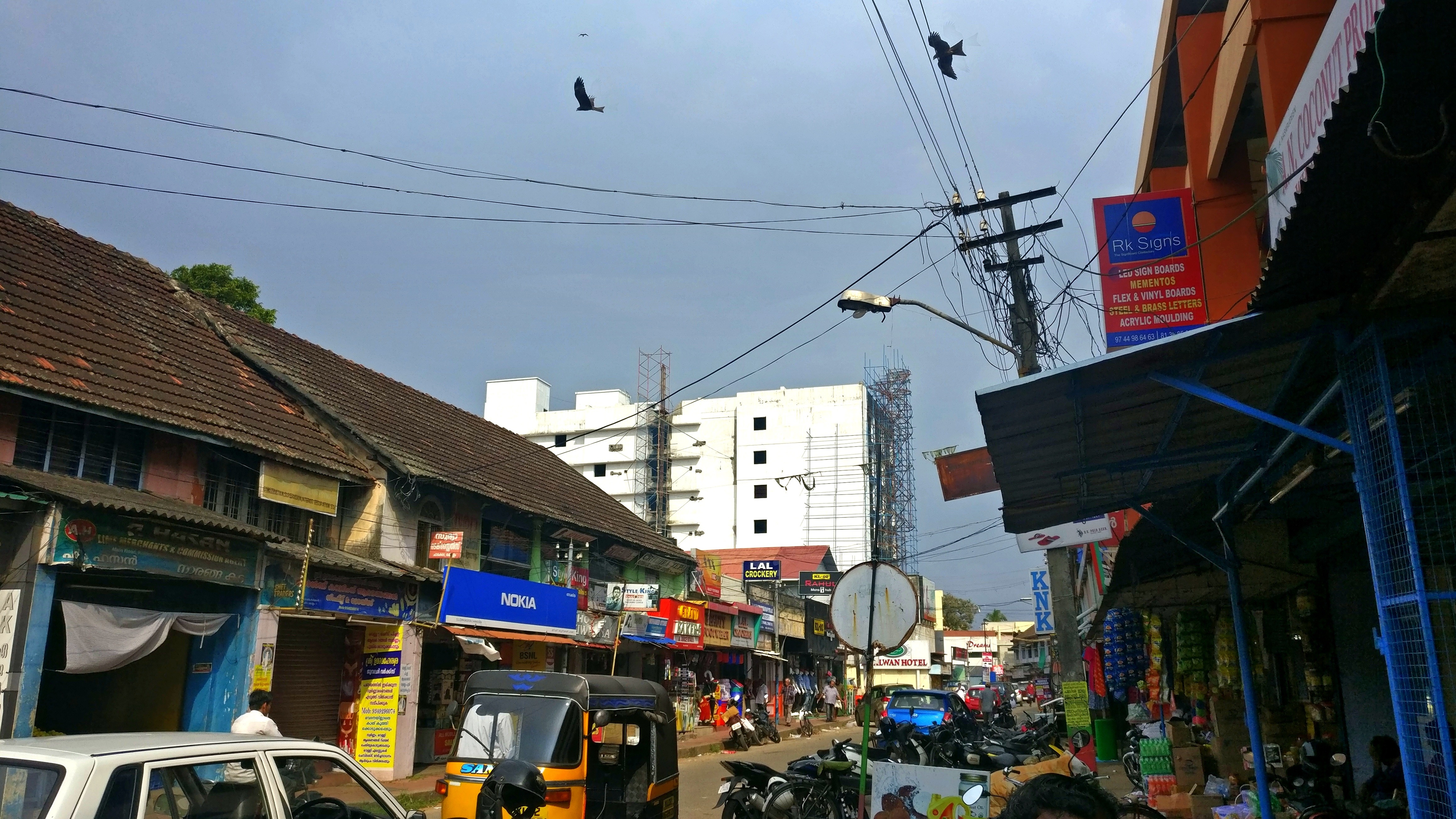 Chamakada (Malayalam: ചാമക്കട) Chamakkada is one of the trade hubs of the city of Kollam, India. It is an important neighbourhood in the city and is located at the core Downtown Kollam area